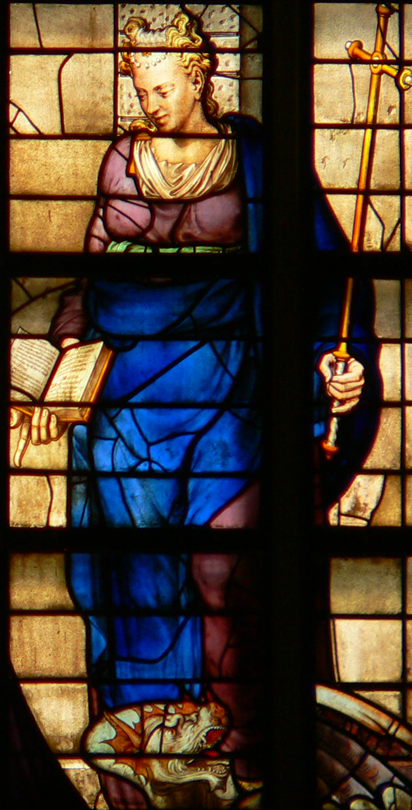 The stained-glass window number 23 (bottom, detail) in the Sint Janskerk at Gouda/Netherlands: "Saint Margaret of Antioch"